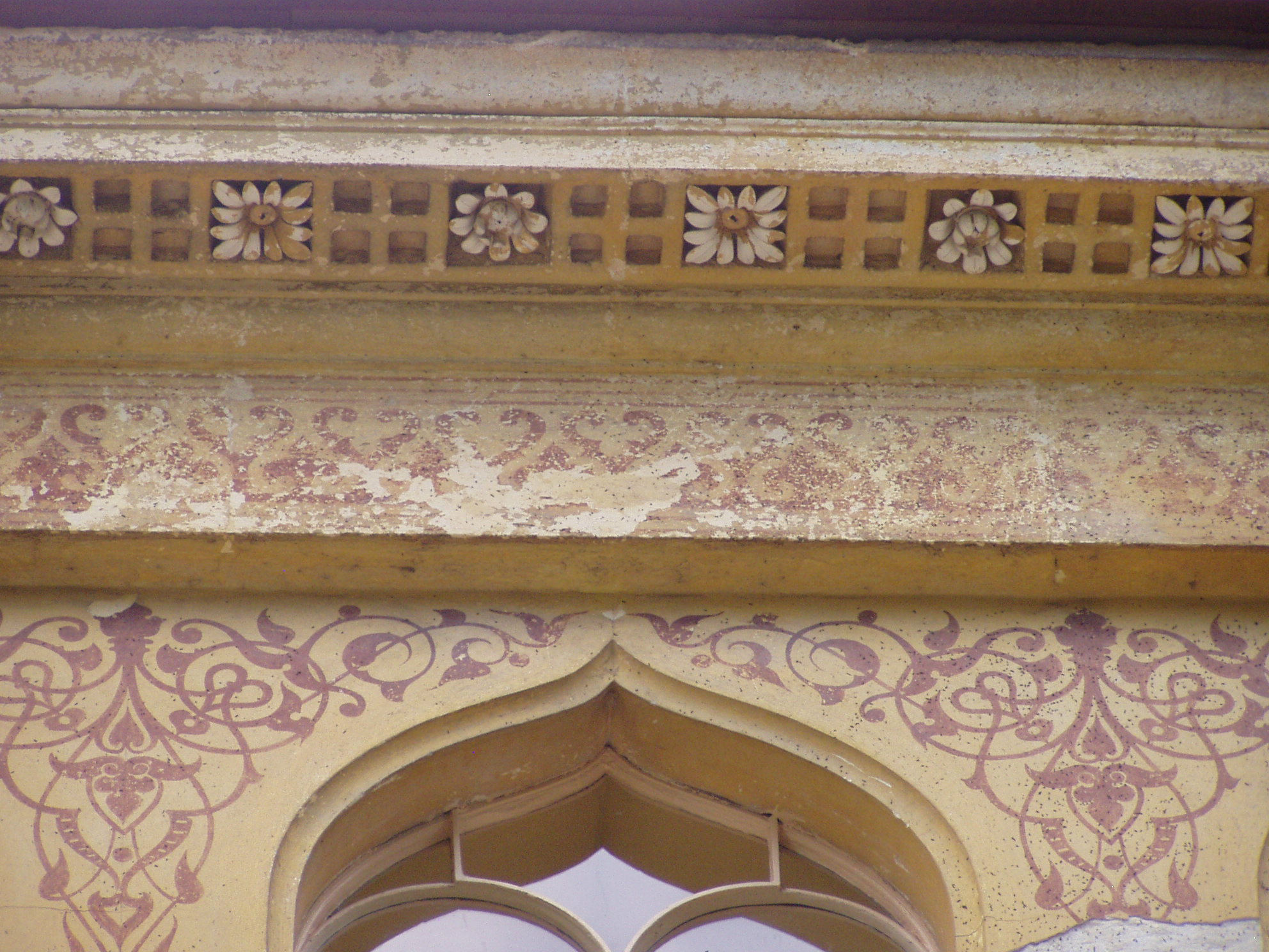 Close view of Lednice (South Moravia) Minaret.